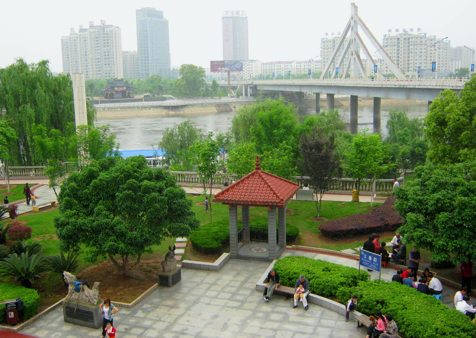 YuZhou Bridge (渝州大桥)